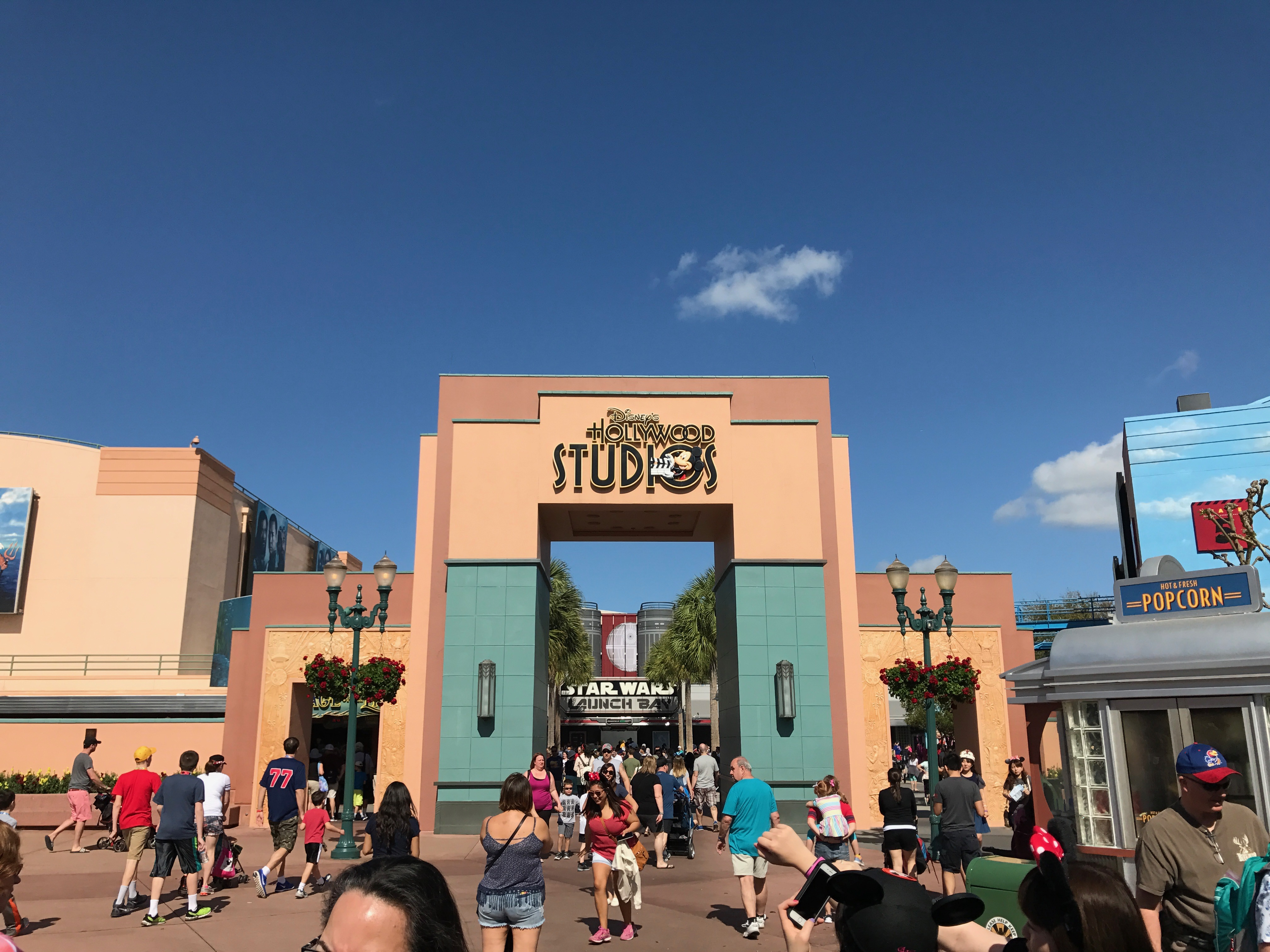 Entrance to the Animation Courtyard section of Disney's Hollywood Studios.